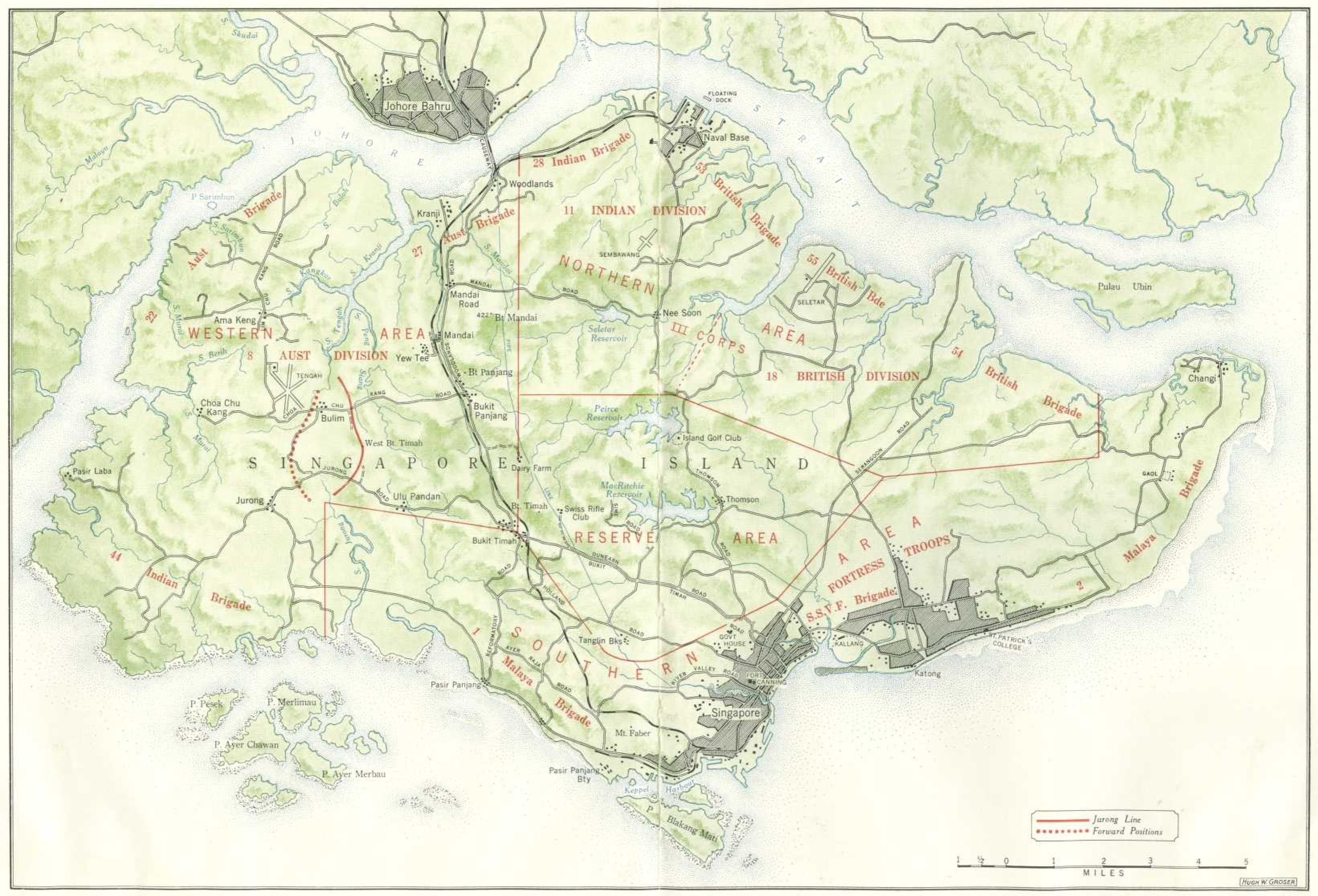 The disposition of Allied ground forces in Singapore in early February 1942, prior to the Battle of Singapore. (From Lionel Wigmore, Australia in the War of 1939–1945 Volume IV – The Japanese Thrust (1st edition, 1957), ; published by the Australian War Memorial)